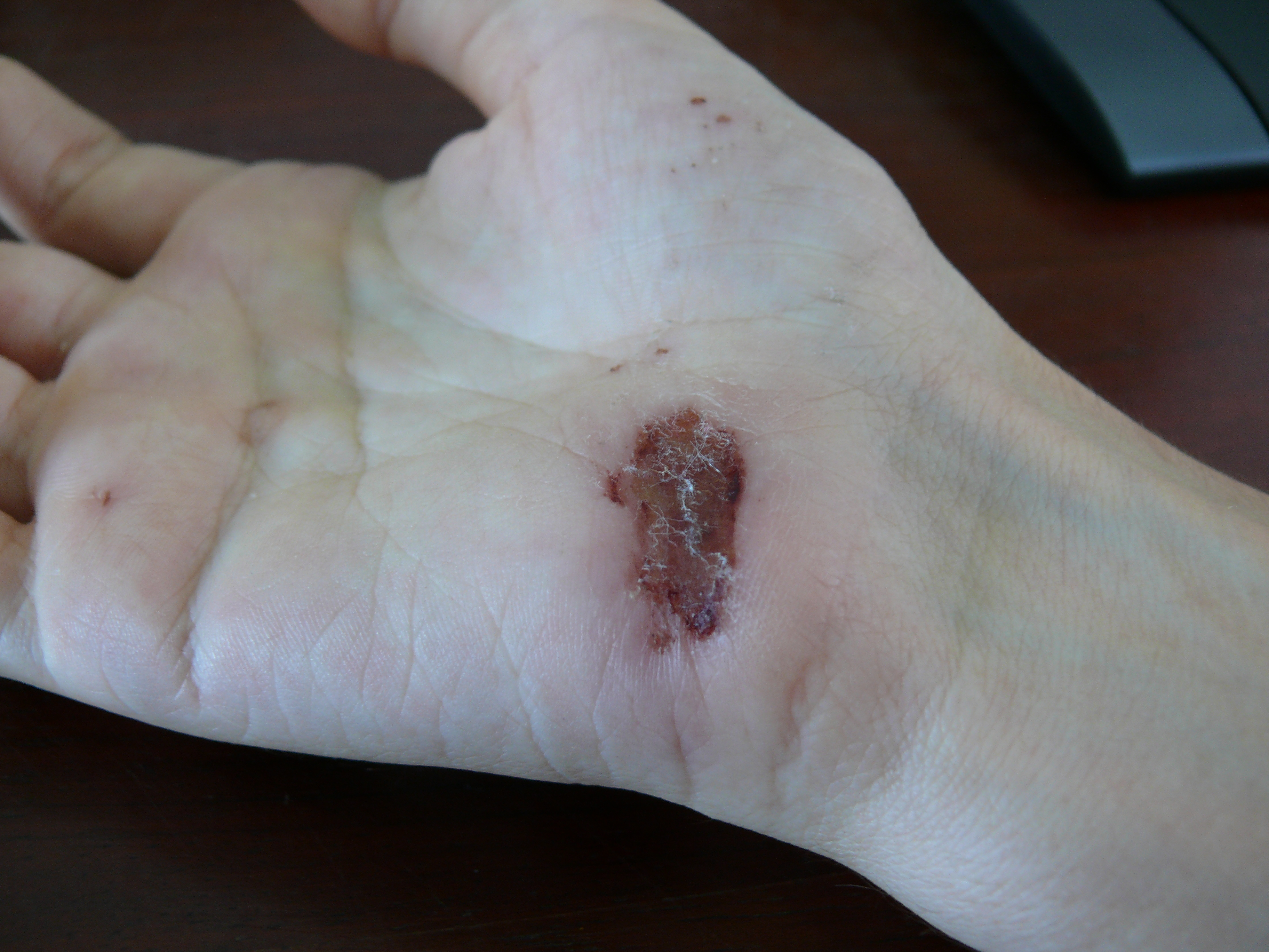 Wound on palm of hand three days after falling off a bike onto concrete. Previous photos: Day 1: Image:Wound on palm of hand.jpg Day 2: Image:Wound on palm of hand - day 2.jpg Following photos: Day 4: Image:Wound on palm of hand - day 4.jpg Day 5: Image:Wound on palm of hand - day 5.jpg Day 6: Image:Wound on palm of hand - day 6.jpg Day 7: Image:Wound on palm of hand - day 7.jpg Day 8: Image:Wound on palm of hand - day 8.jpg Day 9: Image:Wound on palm of hand - day 9.jpg Day 10: Image:Wound on palm of hand - day 10.jpg Day 11: Image:Wound on palm of hand - day 11.jpg Day 12: Image:Wound on palm of hand - day 12.jpg Day 13: Image:Wound on palm of hand - day 13.jpg Day 14: Image:Wound on palm of hand - day 14.jpg Day 15: Image:Wound on palm of hand - day 15.jpg Day 16: Image:Wound on palm of hand - day 16.jpg Day 17: Image:Wound on palm of hand - day 17.jpg Day 18: Image:Wound on palm of hand - day 18.jpg Day 19: Image:Wound on palm of hand - day 19.jpg Day 20: Image:Wound on palm of hand - day 20.jpg